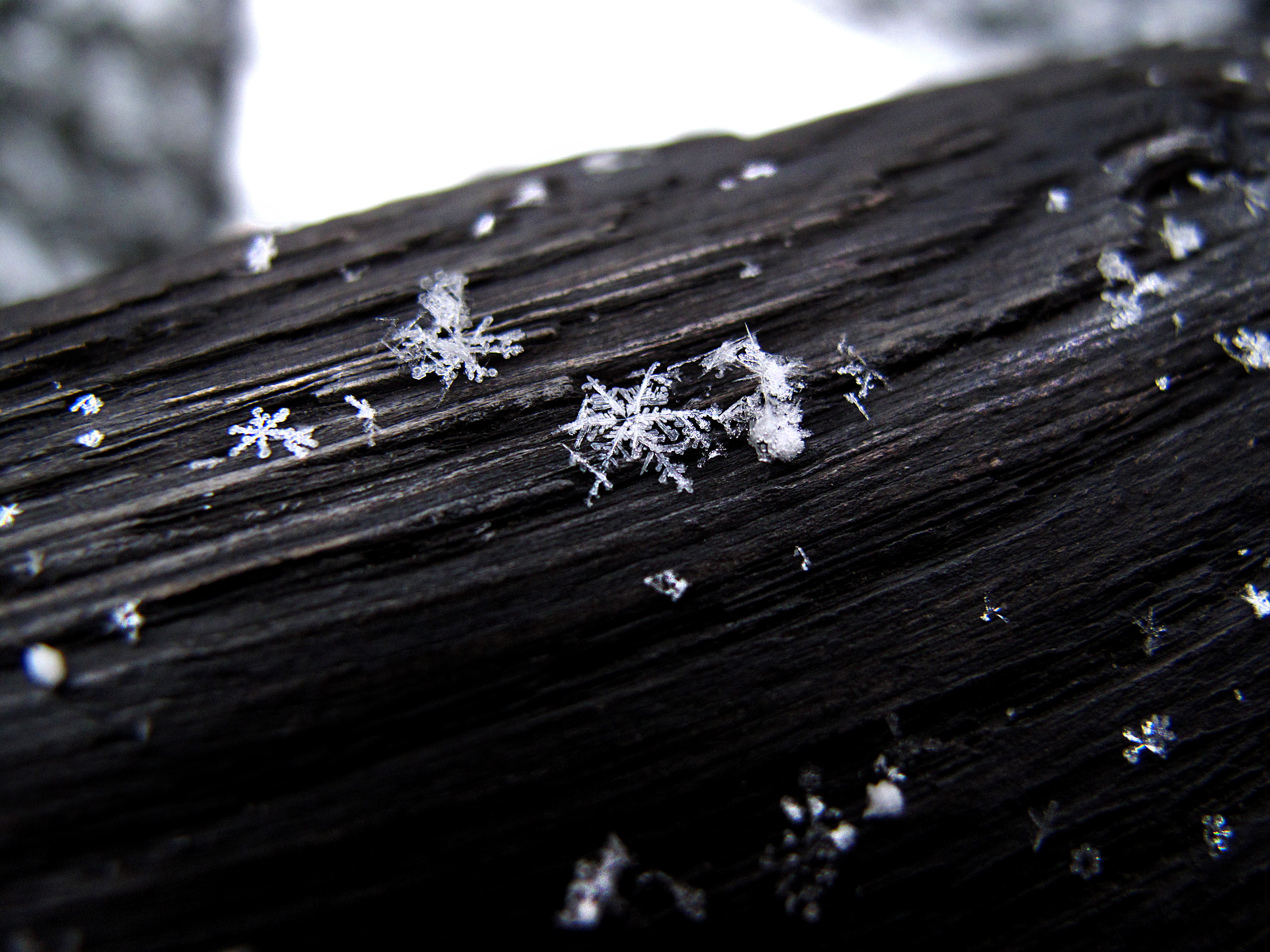 Snowflakes on a handrail in Germany. Macro photo taken in manual mode.